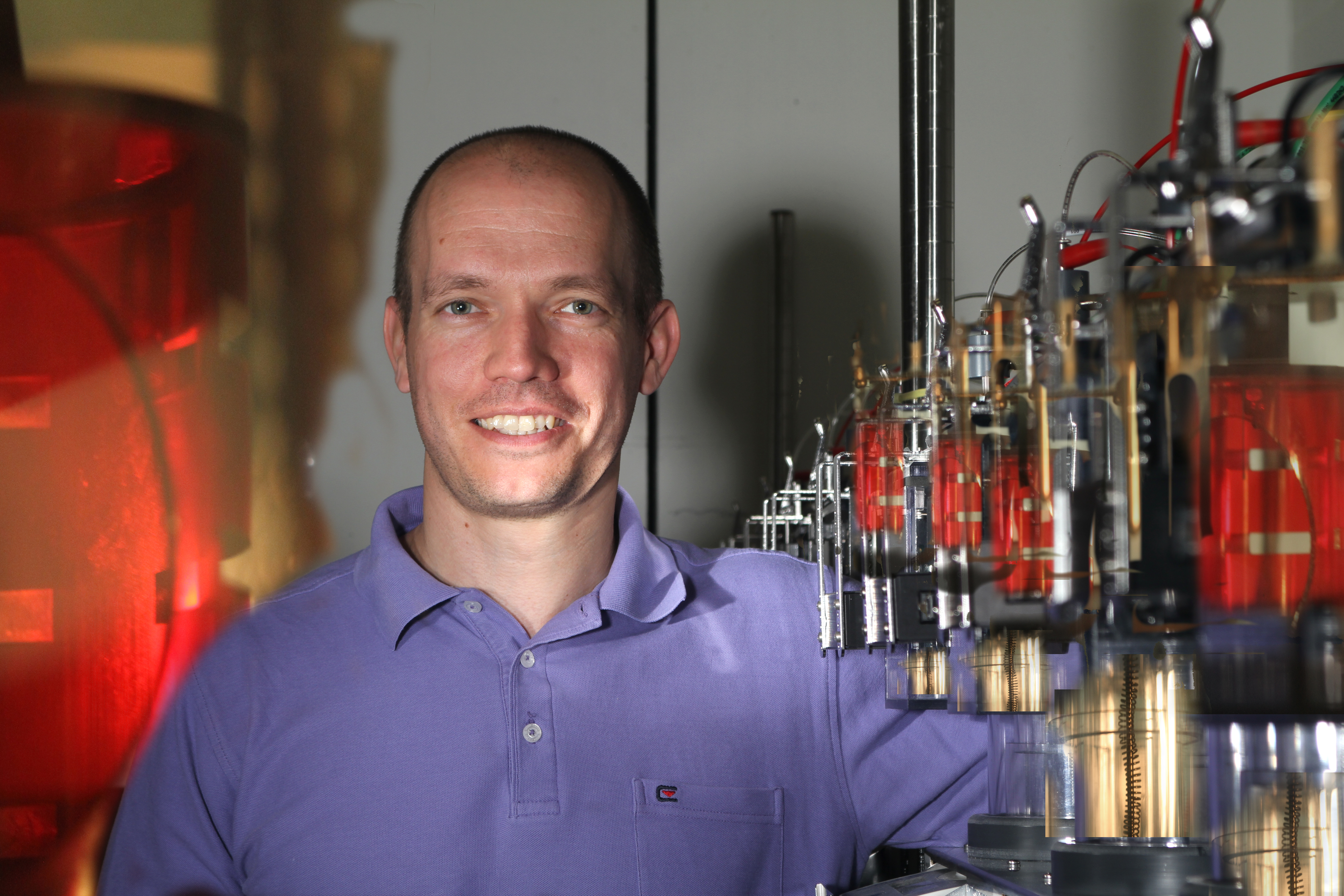 Professor Christoph Handschin